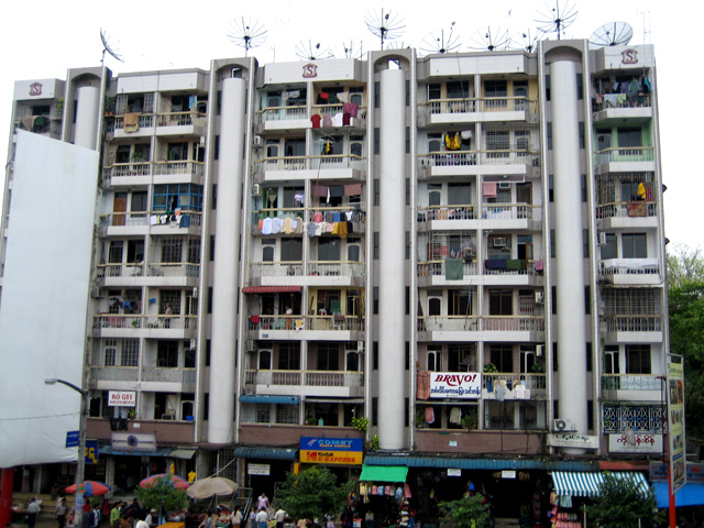 Downtown flats opposite Bogyoke Market, Yangon, Yangon Division